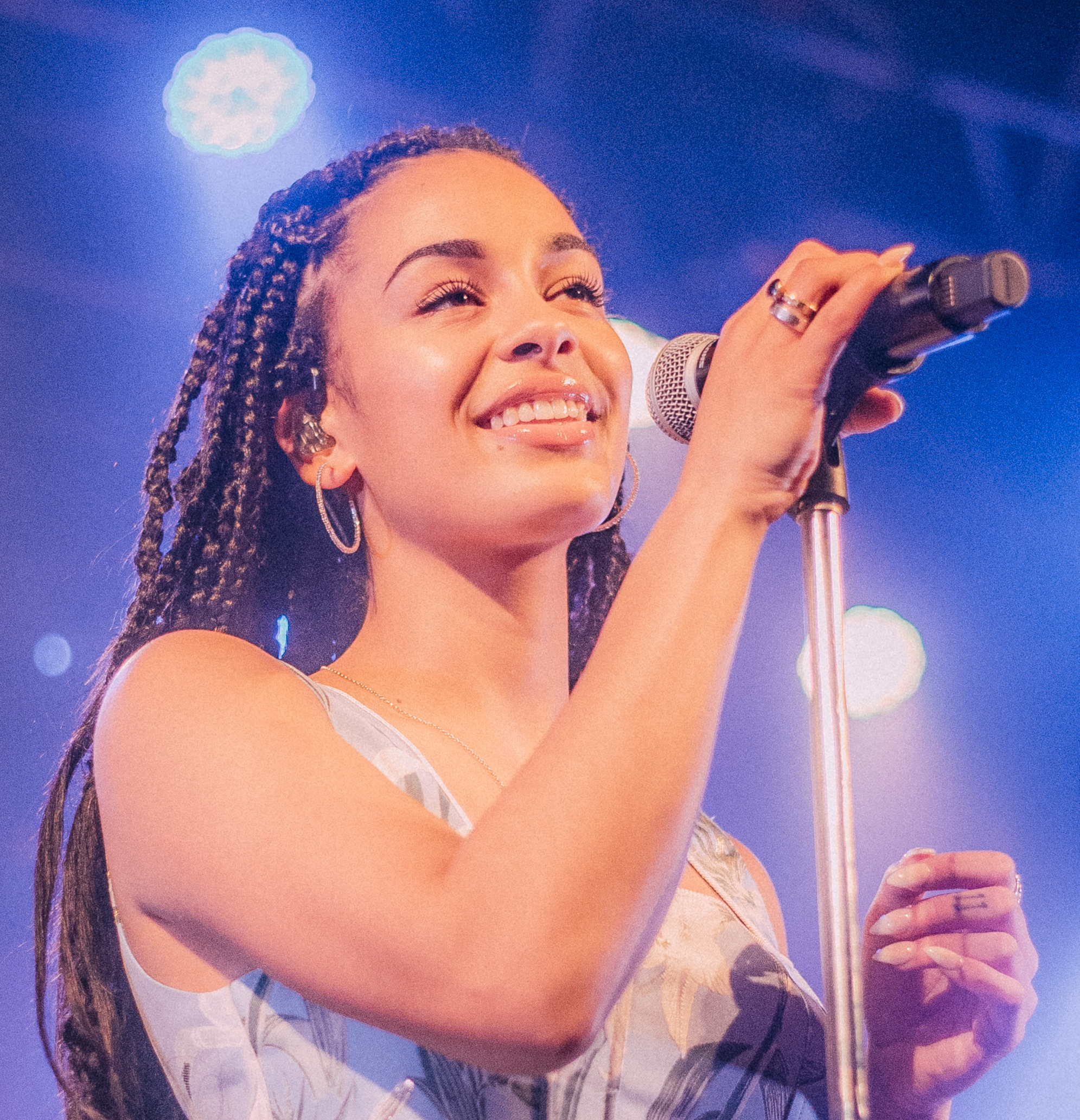 Jorja Smith at The Opera House (DSC_6084)